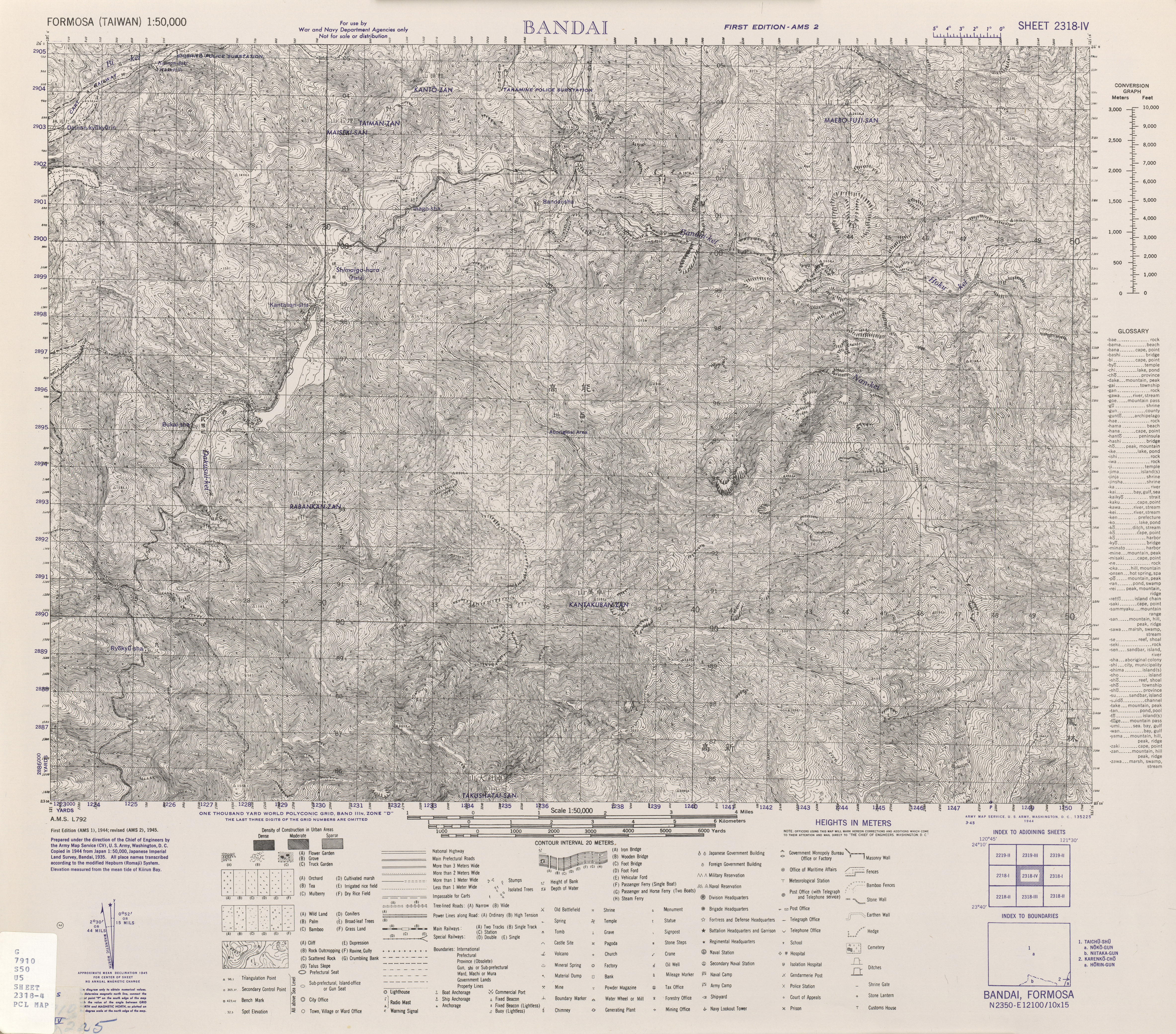 Map from Formosa (Taiwan) 1:50,000 AMS Series L792